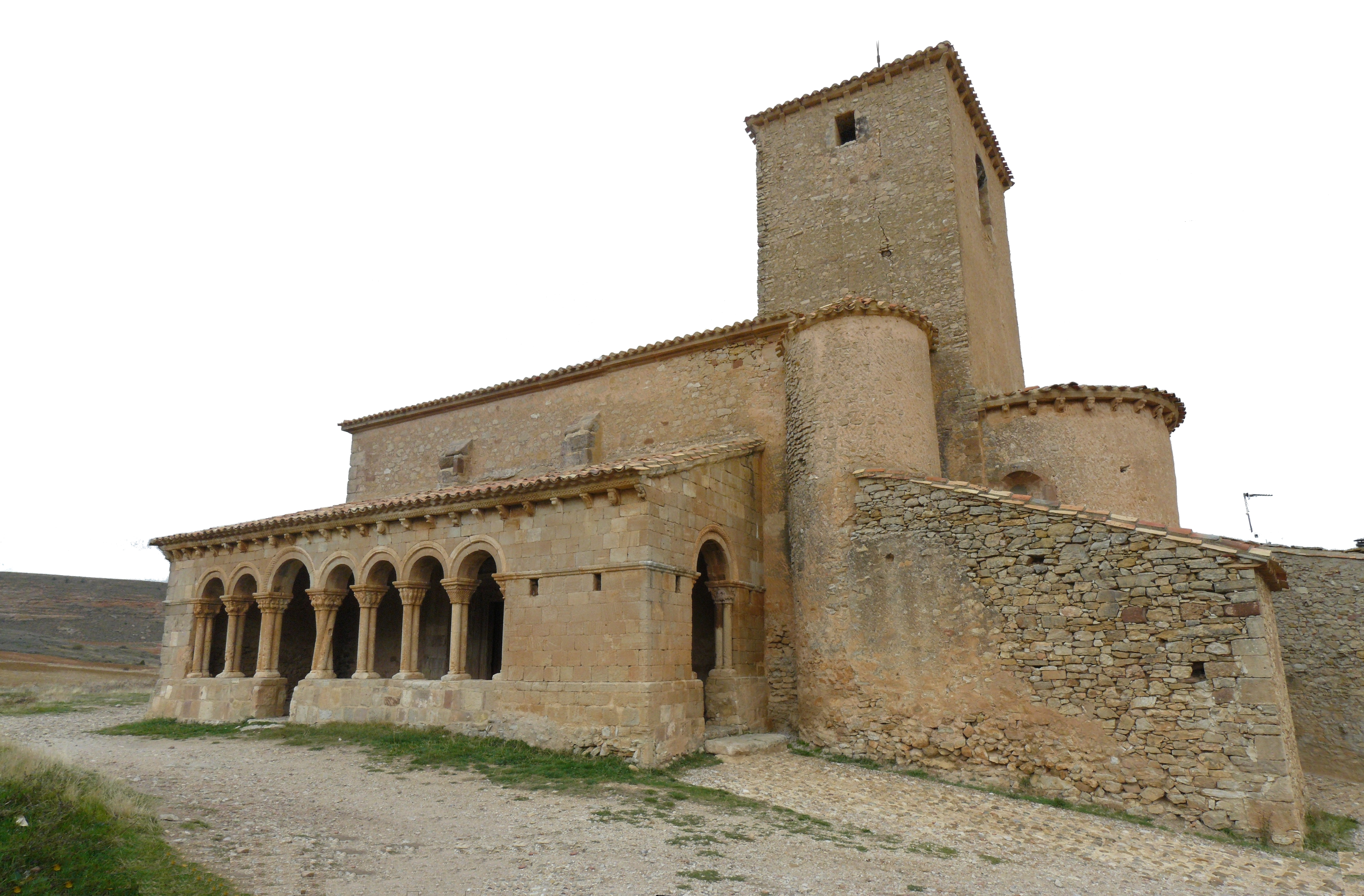 Romanesque Church of San Pedro, Caracena, (Soria, Spain).